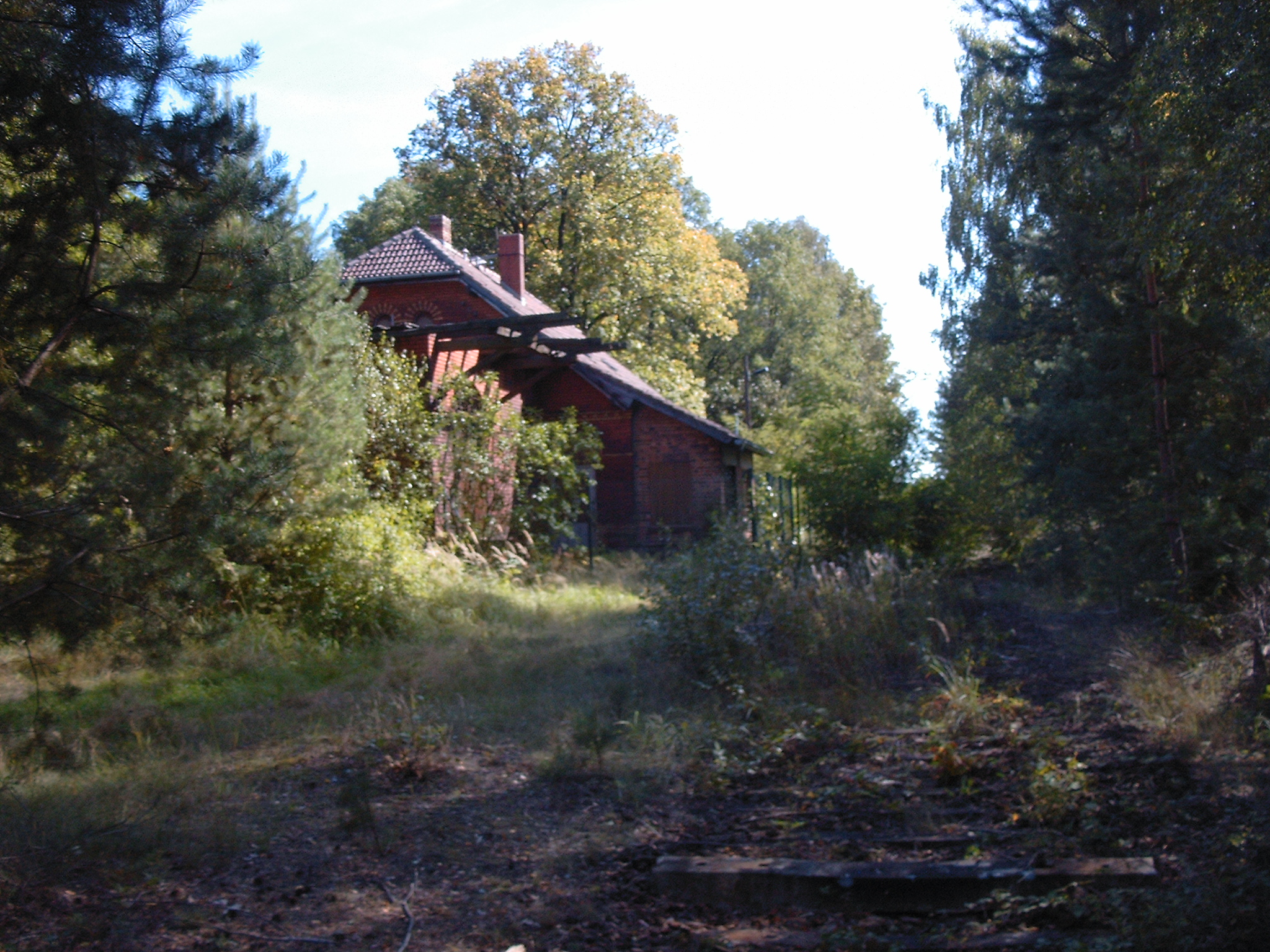 Former Halbendorf station at the railway line between Weißwasser and Forst